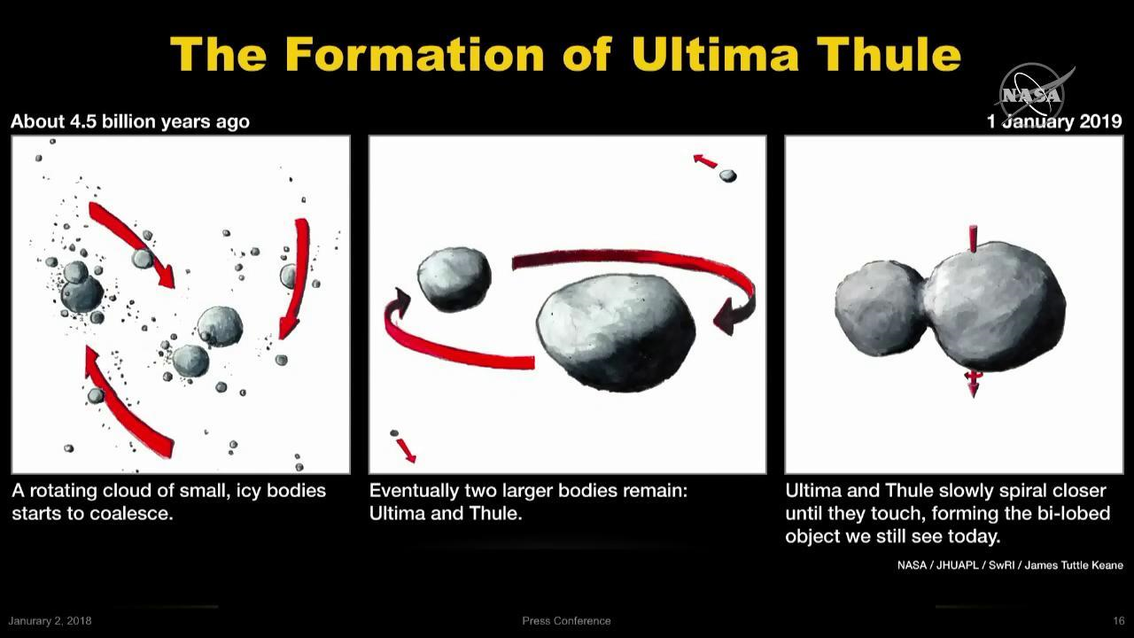 The Formation of Ultima Thule - 1 January 2019 UltimaThule used to be 2 separate objects. It likely formed over time as a rotating cloud of small, icy bodies started to combine. Eventually, 2 larger bodies remained & slowly spiraled closer until they touched, forming the bi-lobed object we see today